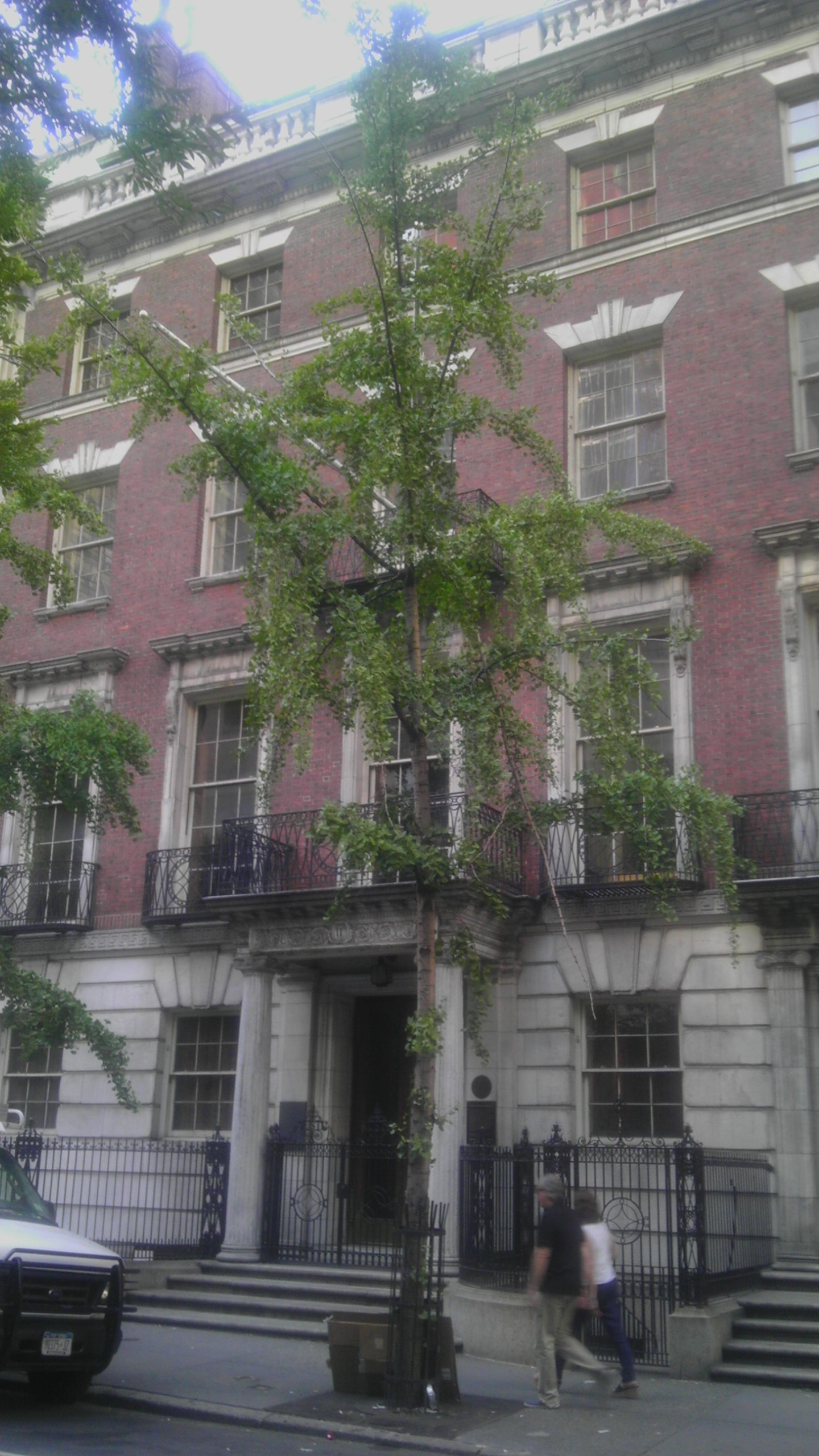 Looking north at 11 West 54th St, former Rhodes school on a sunny day.